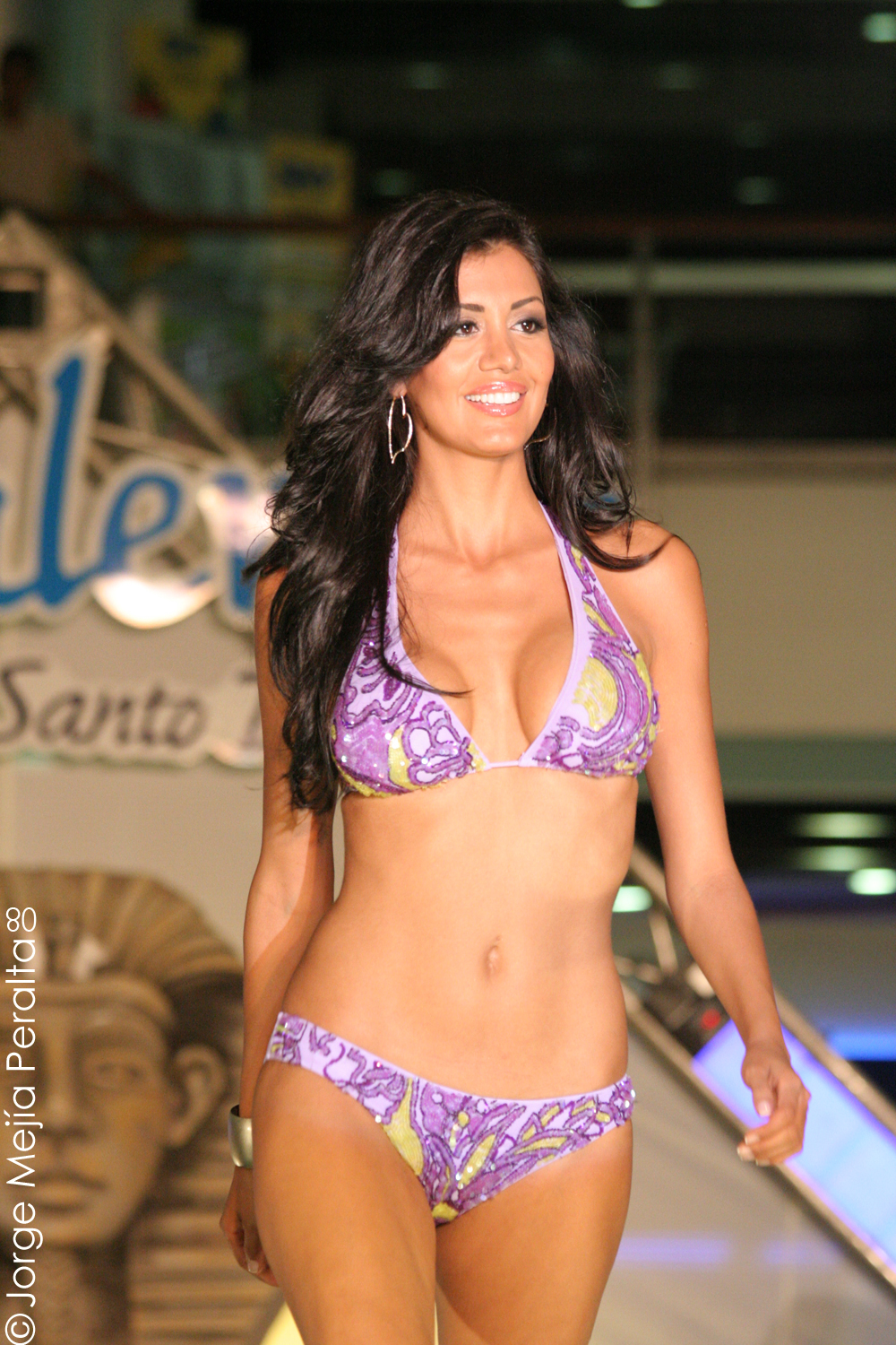 Samantha Tajik the Miss Universe Canada, 2008.